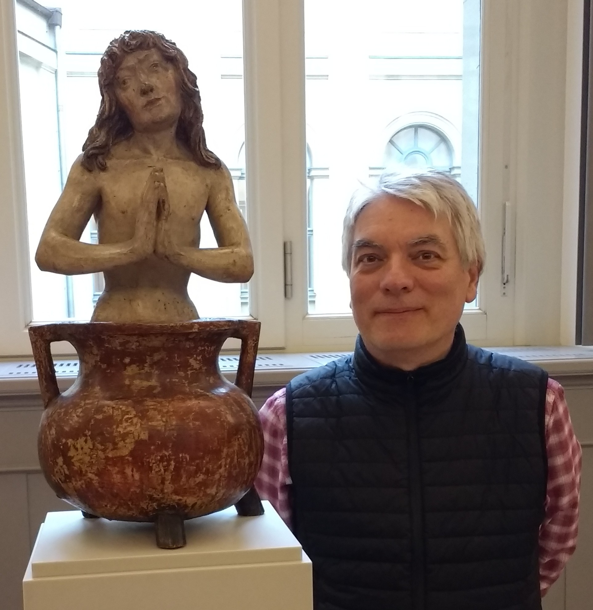 Simon Holt with sculpture of St Vitus in the kettle, Bode-Museum, Berlin, 4 May 2017.